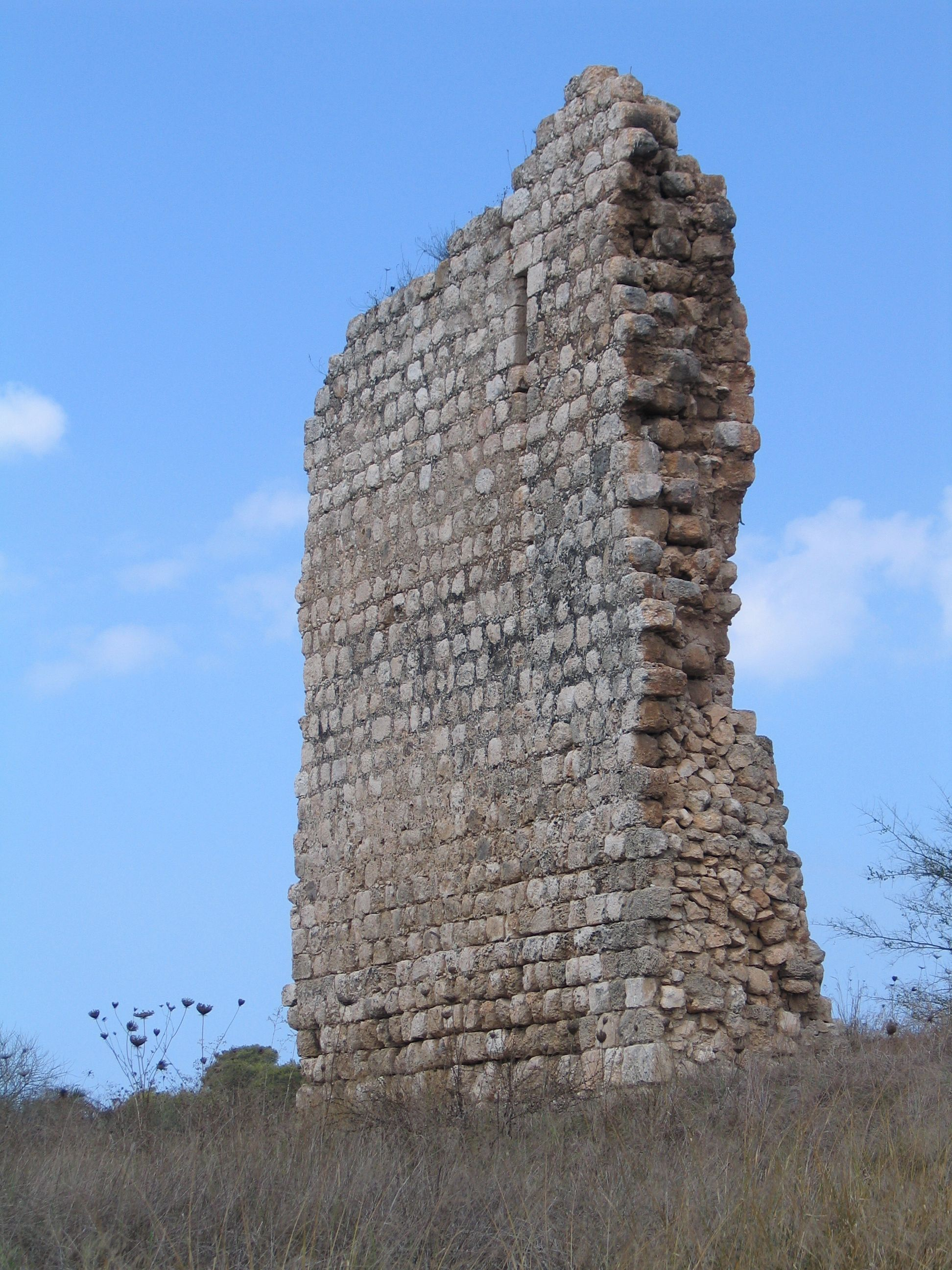 Hurvat Burgata (Burj al-Atut / Burj al-Ahmar / Turris Rubea etc.).